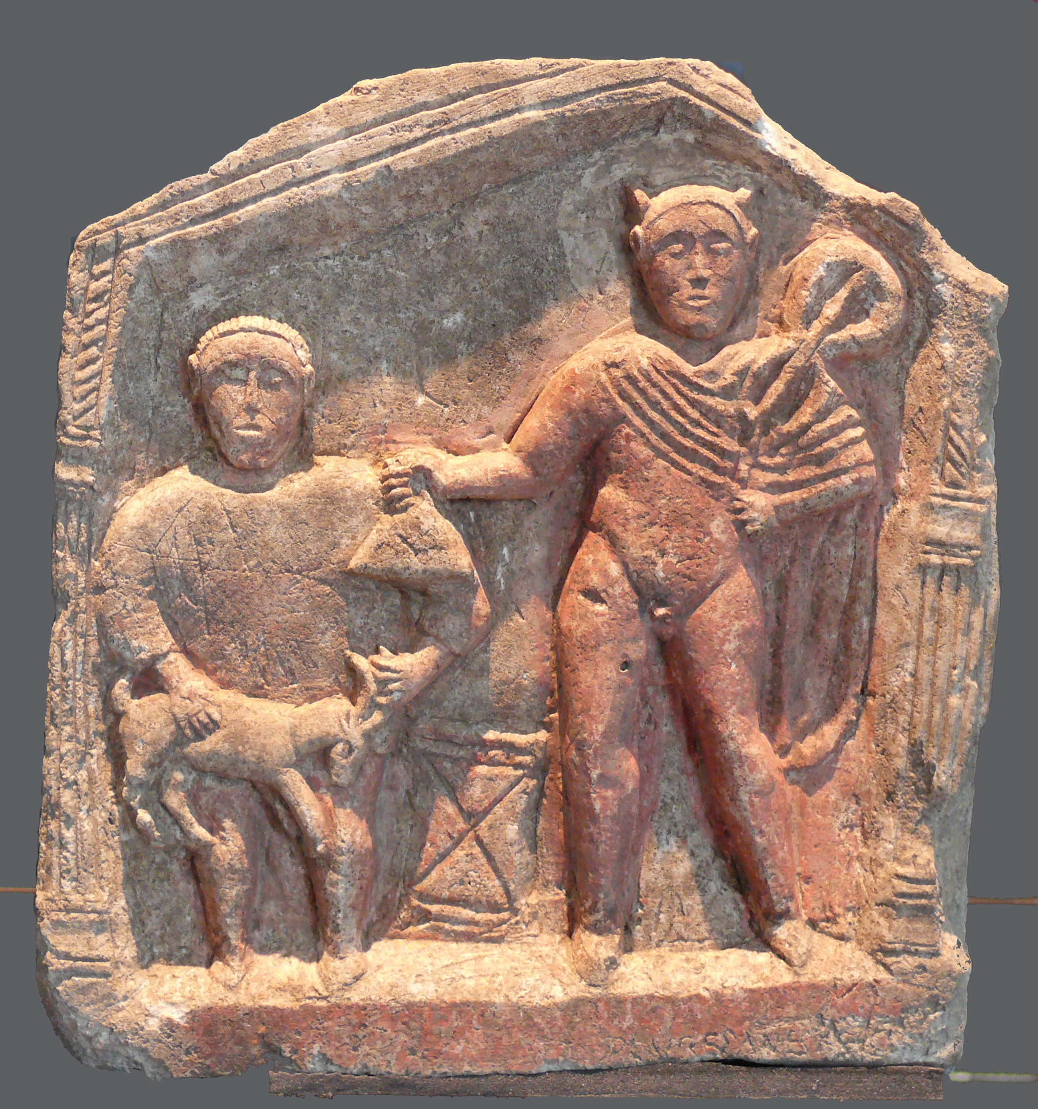 Consecration relief with the god Mercury. A man is offering a goat at an altar. From the collection of the Roman Museum at Augusta Raurica (Augst, Switzerland)